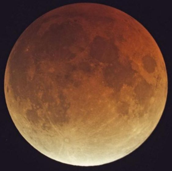 February 2008 lunar eclipse, approximately 3:25 UT, in North Billerica MA. Uploaded to Wiki-commons by permission from John Buonomo. [1] Equipment: Canon (un modified) DSLR Celeston C8 f6.3 Taken from: 1180 frames between 9:01pm 02-20-2008 to 12:15am 02-21-2008 Exposures ~8-10 seconds